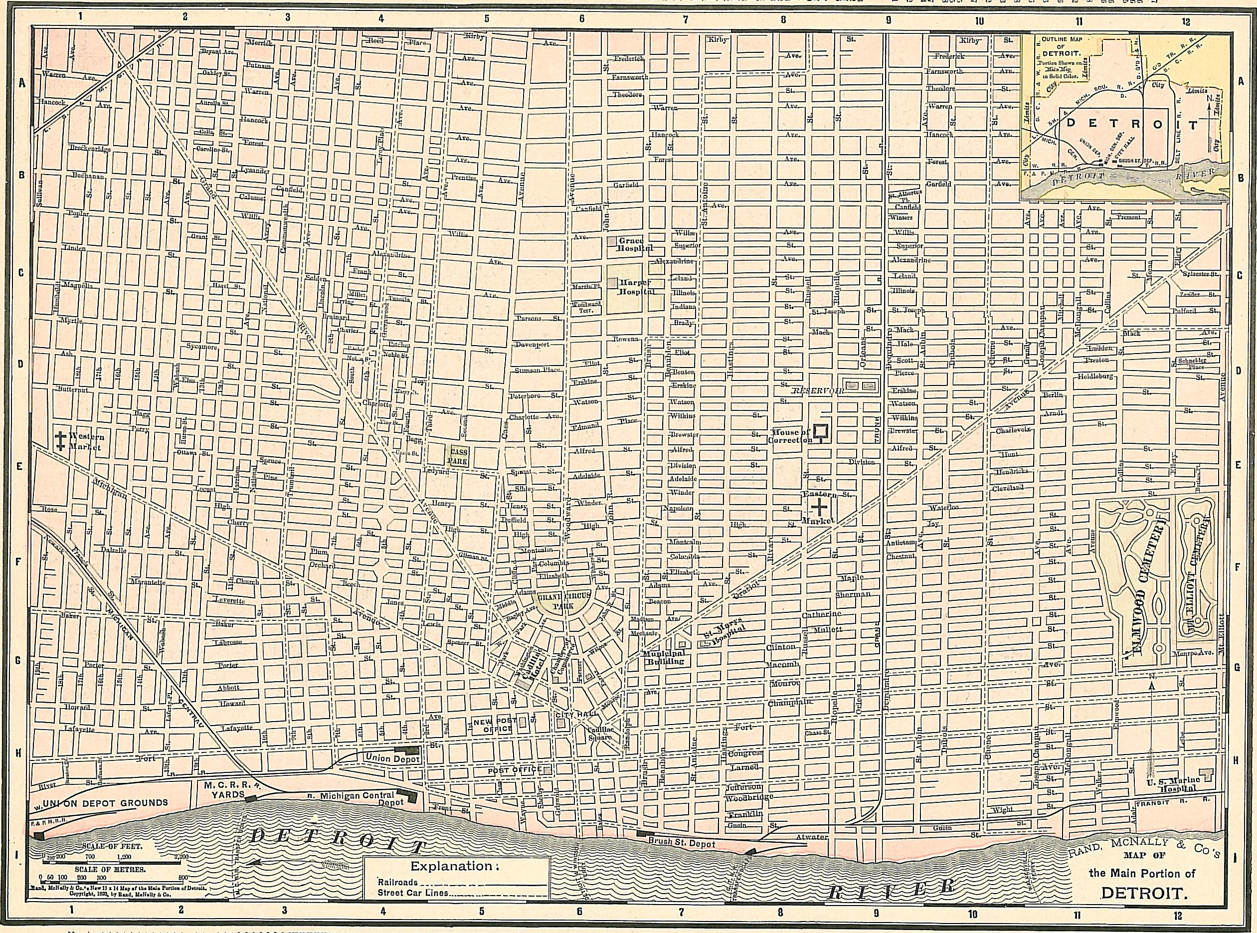 Map of the Main Portion of Detroit, 1895